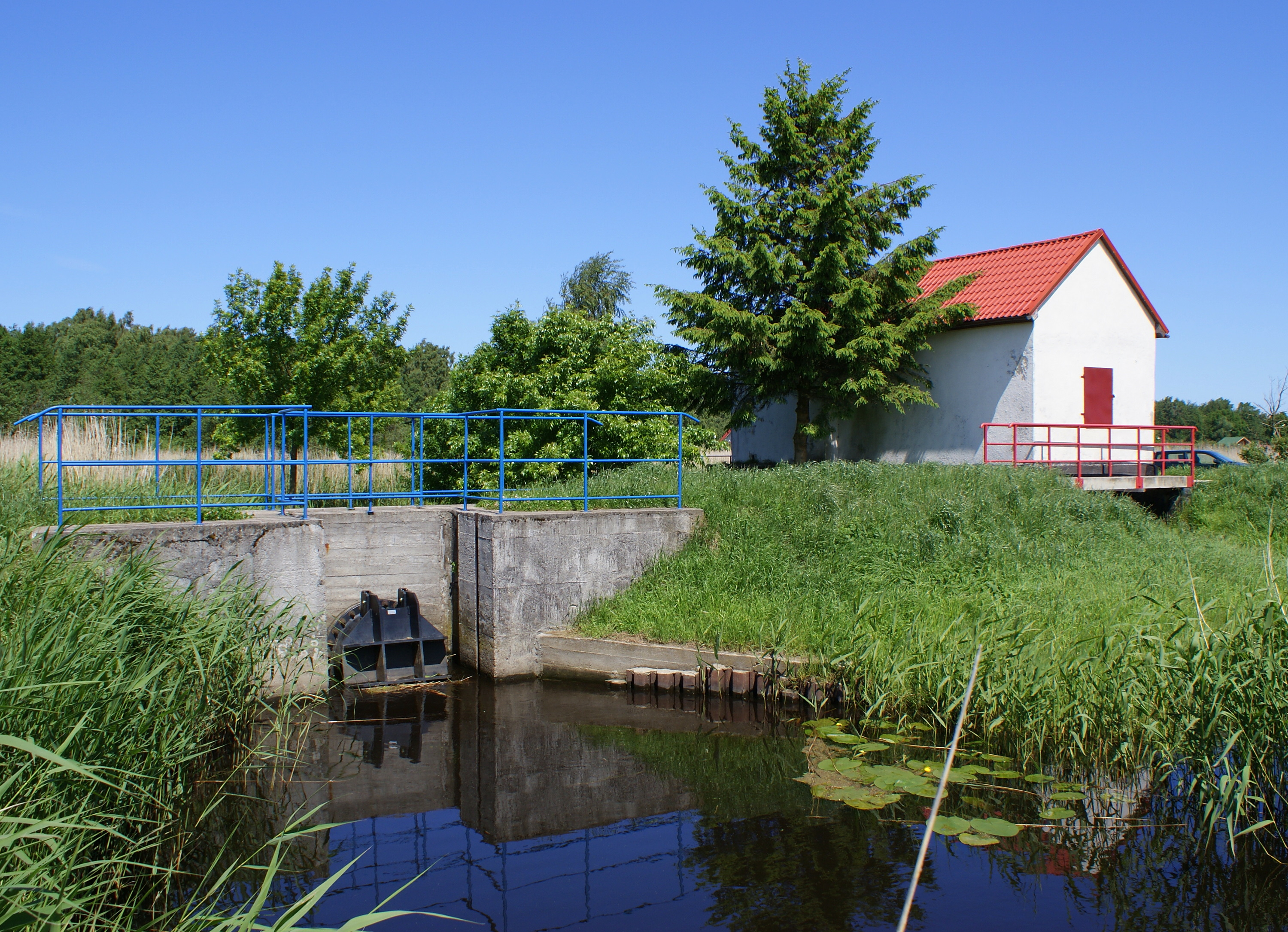 Watergate on Mrzeżyno III Canal and pumpstation Mrzeżyno III